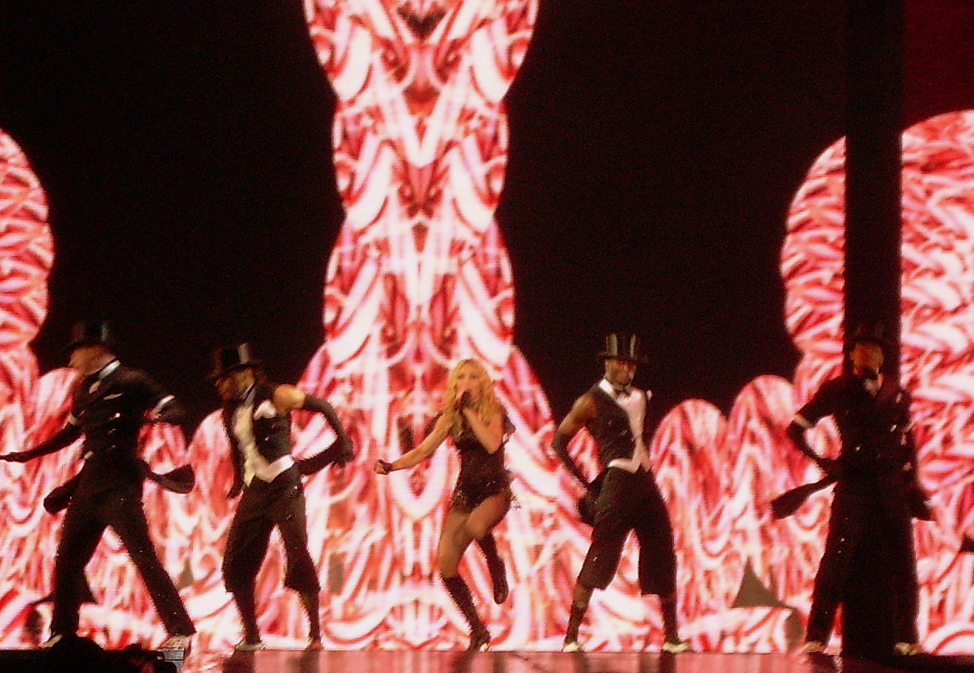 Му рicture taken in Wembley during the concert